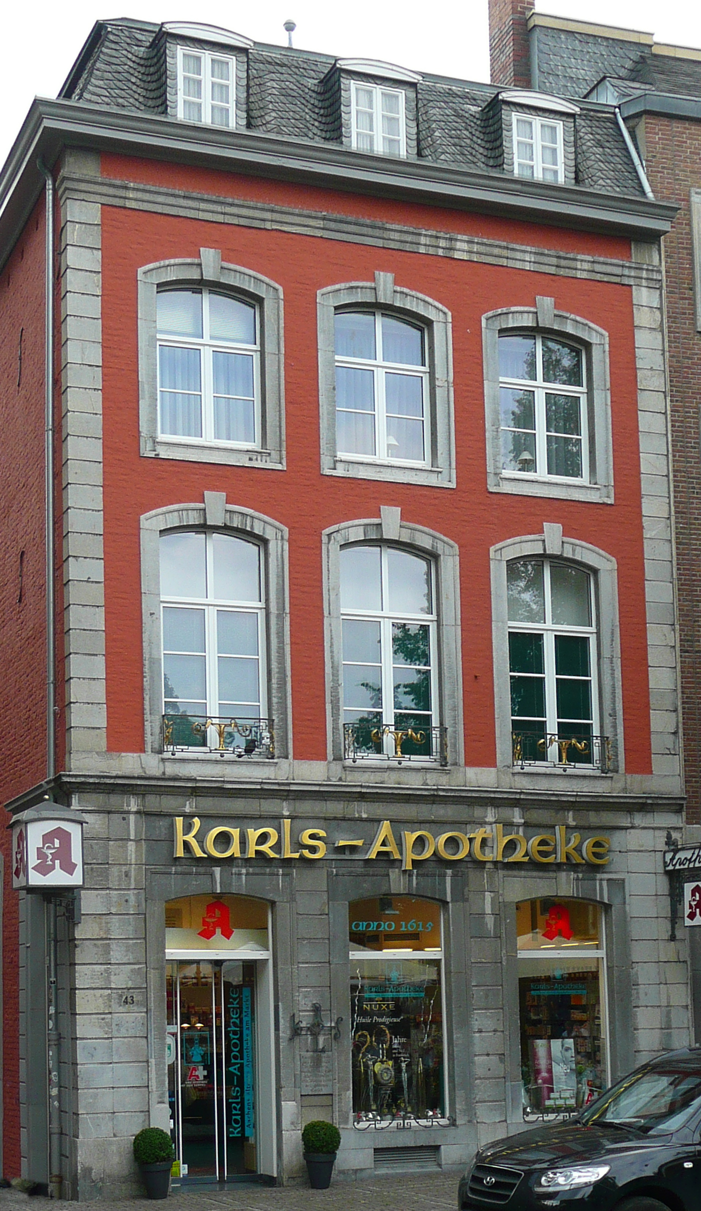 Building in Aachen, Markt